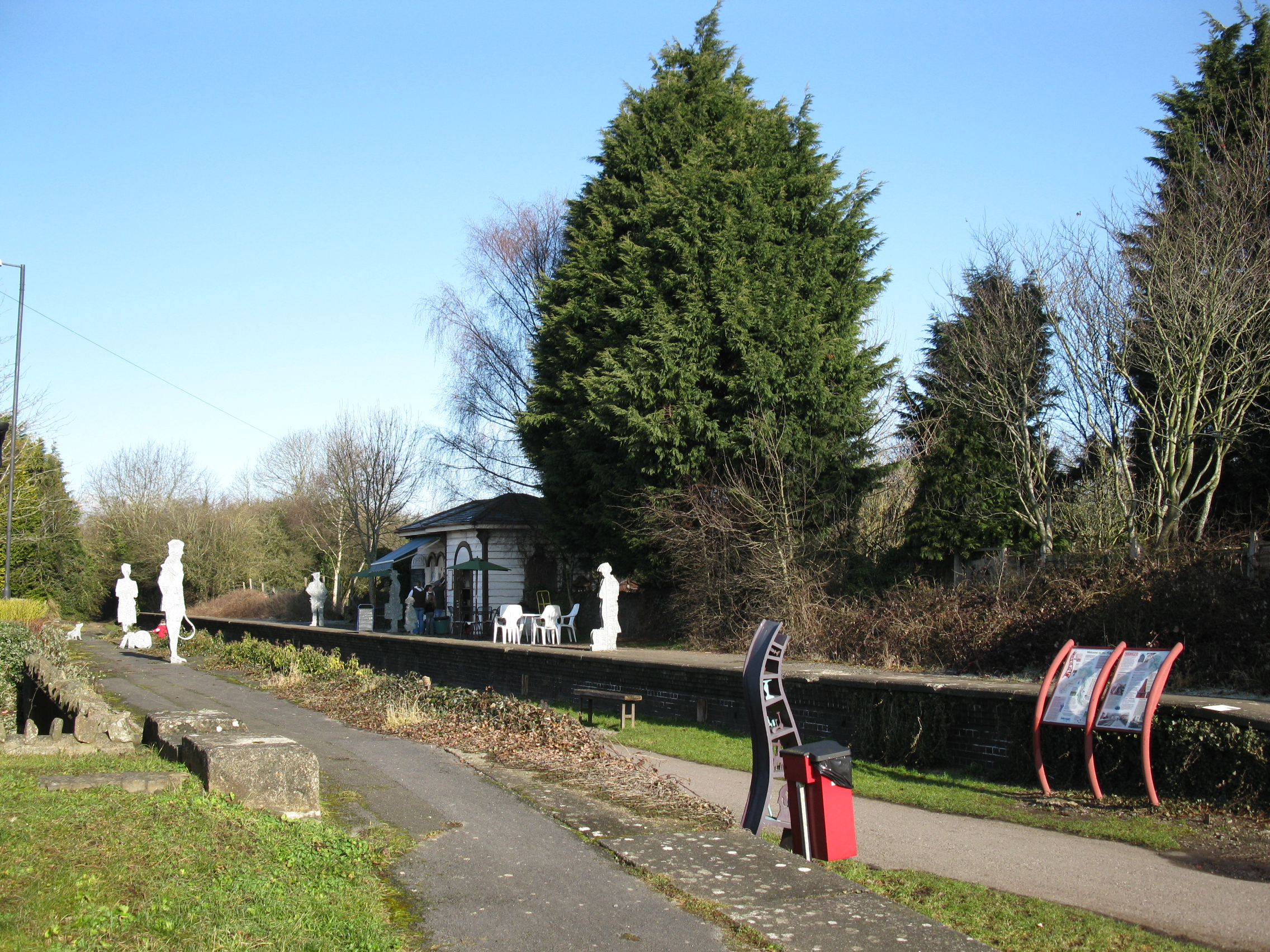 Warmley Station Compare this photo with the one taken in 1972 The station office is now a cafe and there is a very busy path and cycleway that uses the old railway route from Bristol to Bath.